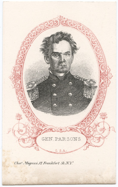 Title: Gen. Parsons, C.S.A. Alternative Title: [General Mosby Monroe Parsons, Confederate States Army] Creator: Magnus, Charles Date: 1861-1865 Part of: Physical Description: 1 print on carte de visite mount; 9.8 x 6.2 cm. File: ag2004_0007_01_06_opt.jpg Rights: Please cite DeGolyer Library, Southern Methodist University when using this file. A high-resolution version of this file may be obtained for a fee. For details see the web page. For other information, . For more information, View Civil War: Photographs, Manuscripts, and Imprints